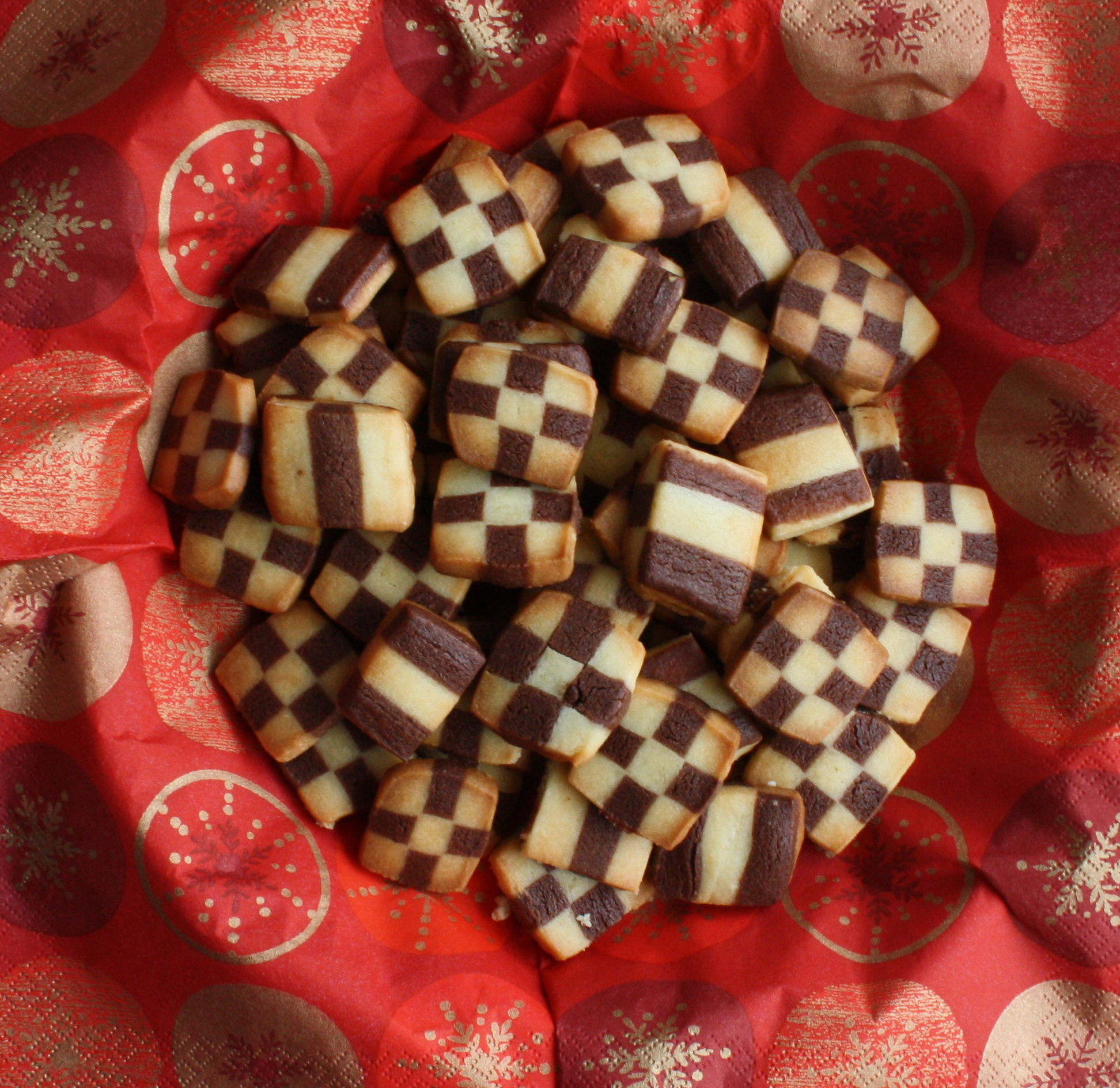 Christmas pastries checkered in black and white.